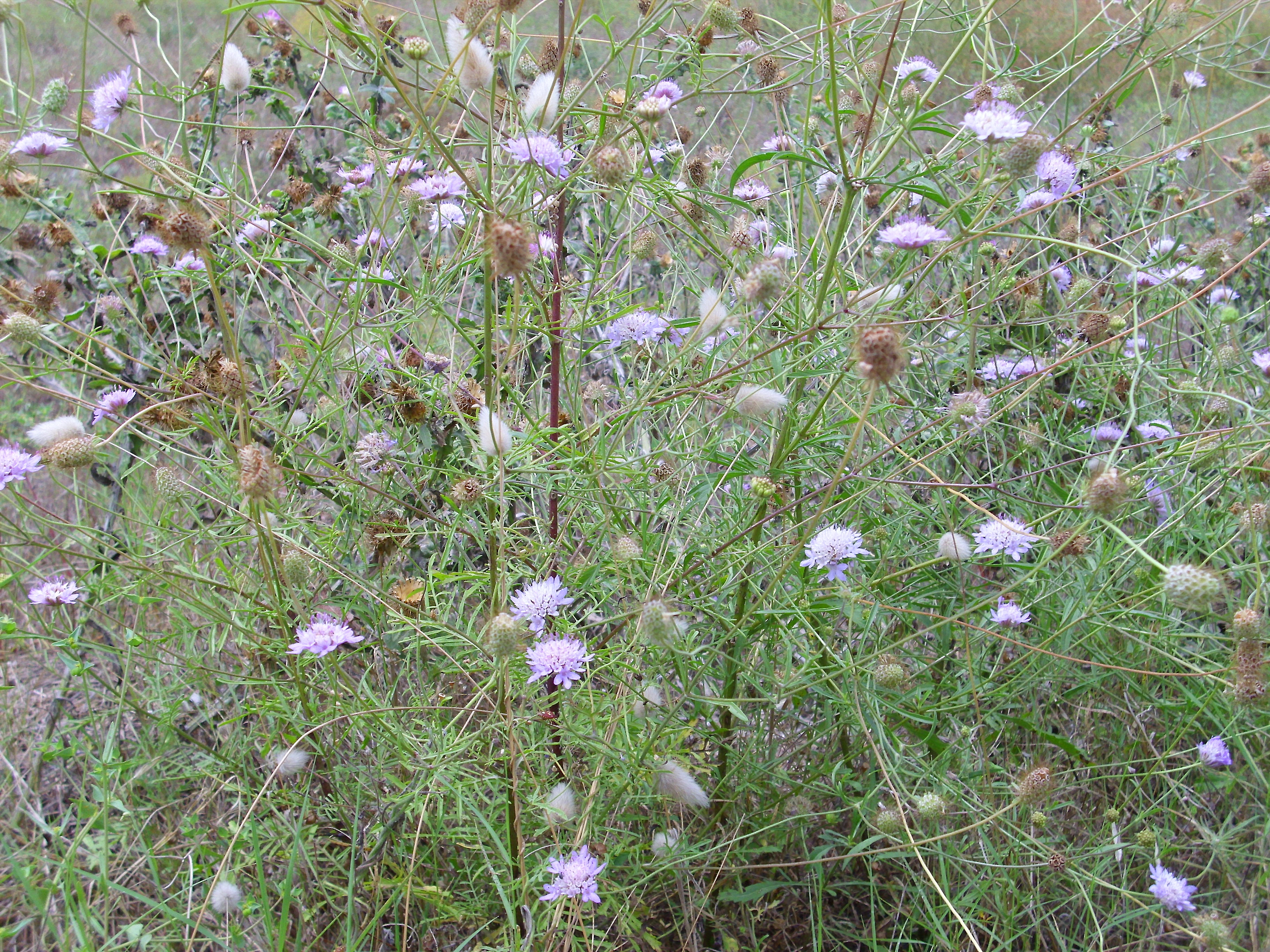 Scabiosa turolensis subsp. turolensis habit, La Mata, Torrevieja, Alicante, Spain.